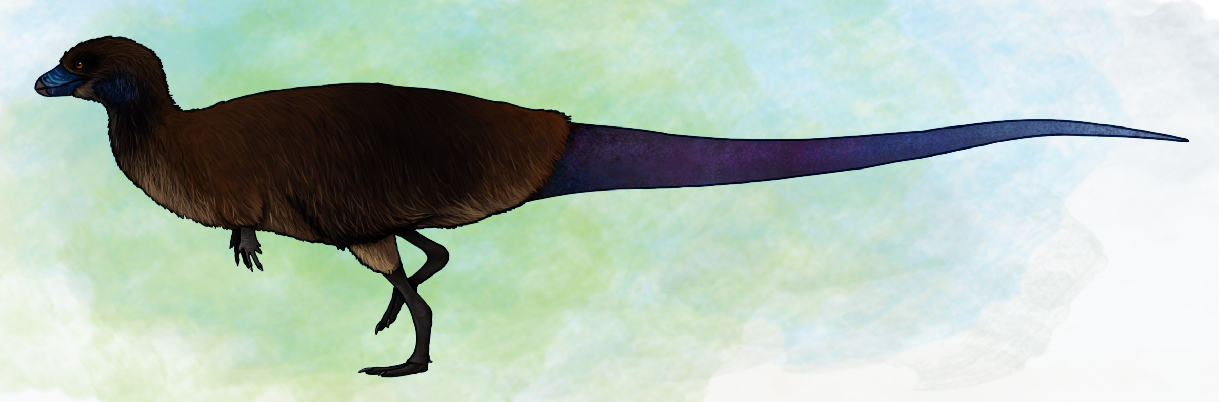 Lesothosaurus diagnosticus reconstruction, showing it with filamentous integument similar to that found on Kulindadromeus, a close relative